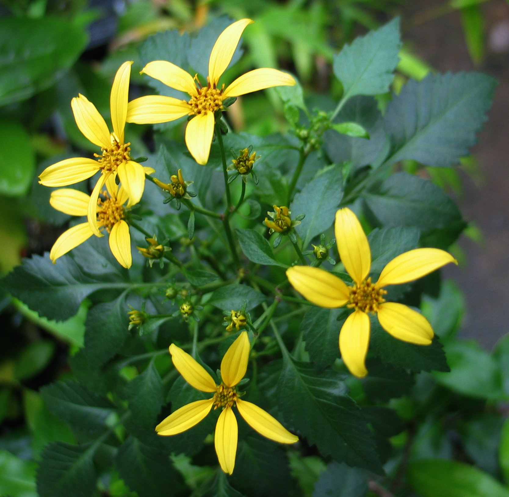 Koʻokoʻolau or Molokai kookoolau Asteraceae Endemic tot the Hawaiian Islands (Molokaʻi only) Endangered Oʻahu (Cultivated)